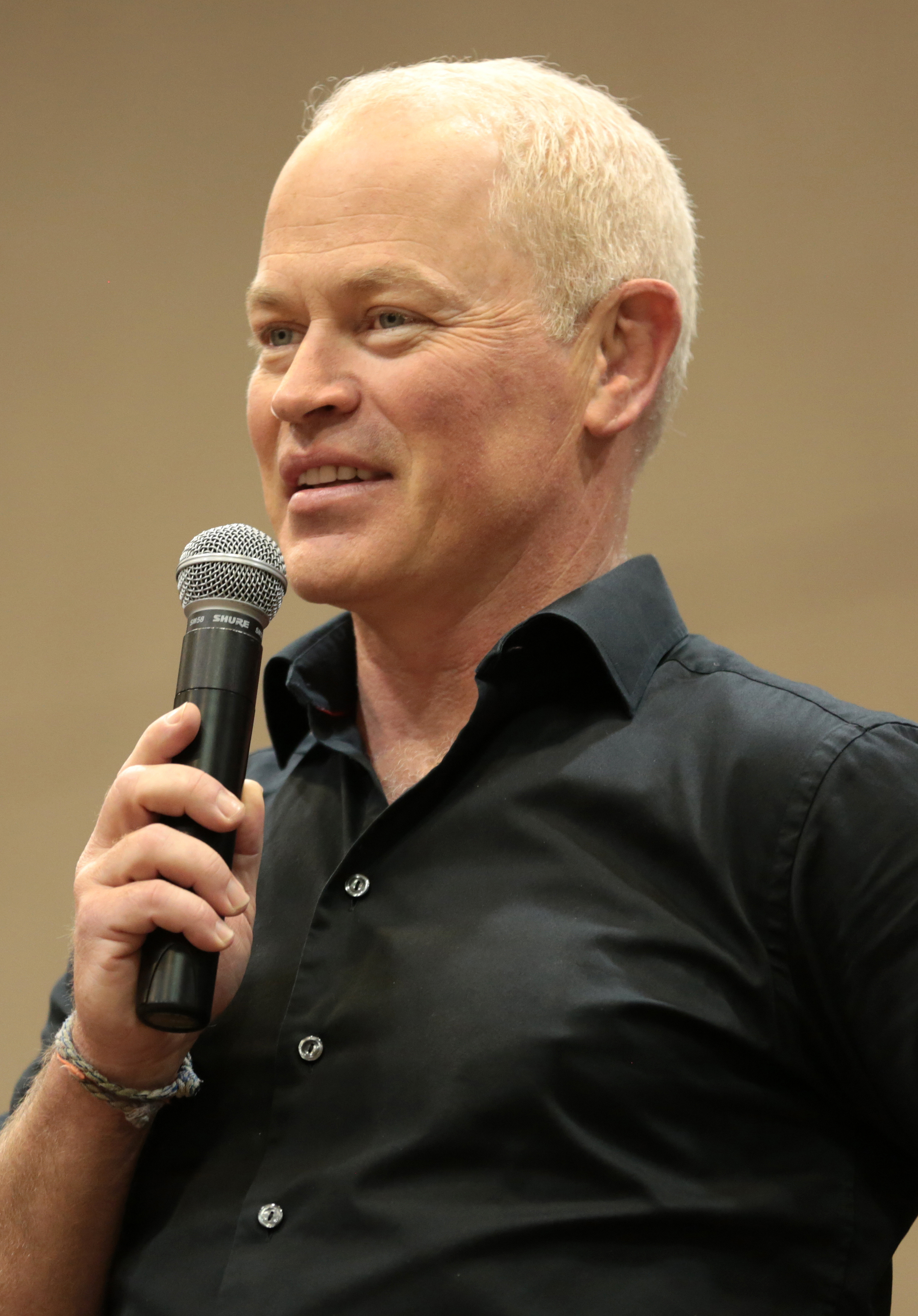 Neal McDonough speaking at the 2017 Phoenix Comicon in Phoenix, Arizona.